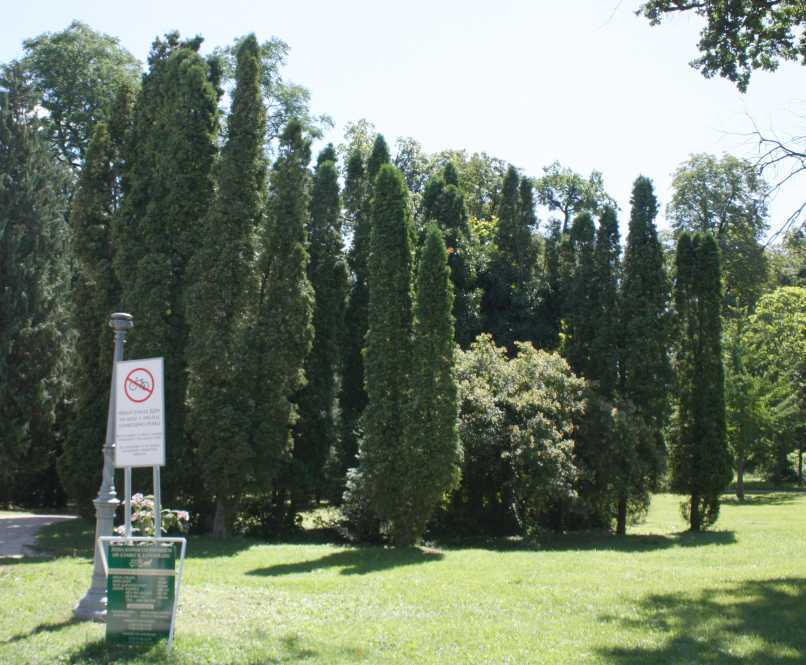 Lednice na Moravě, Czech republic, english park